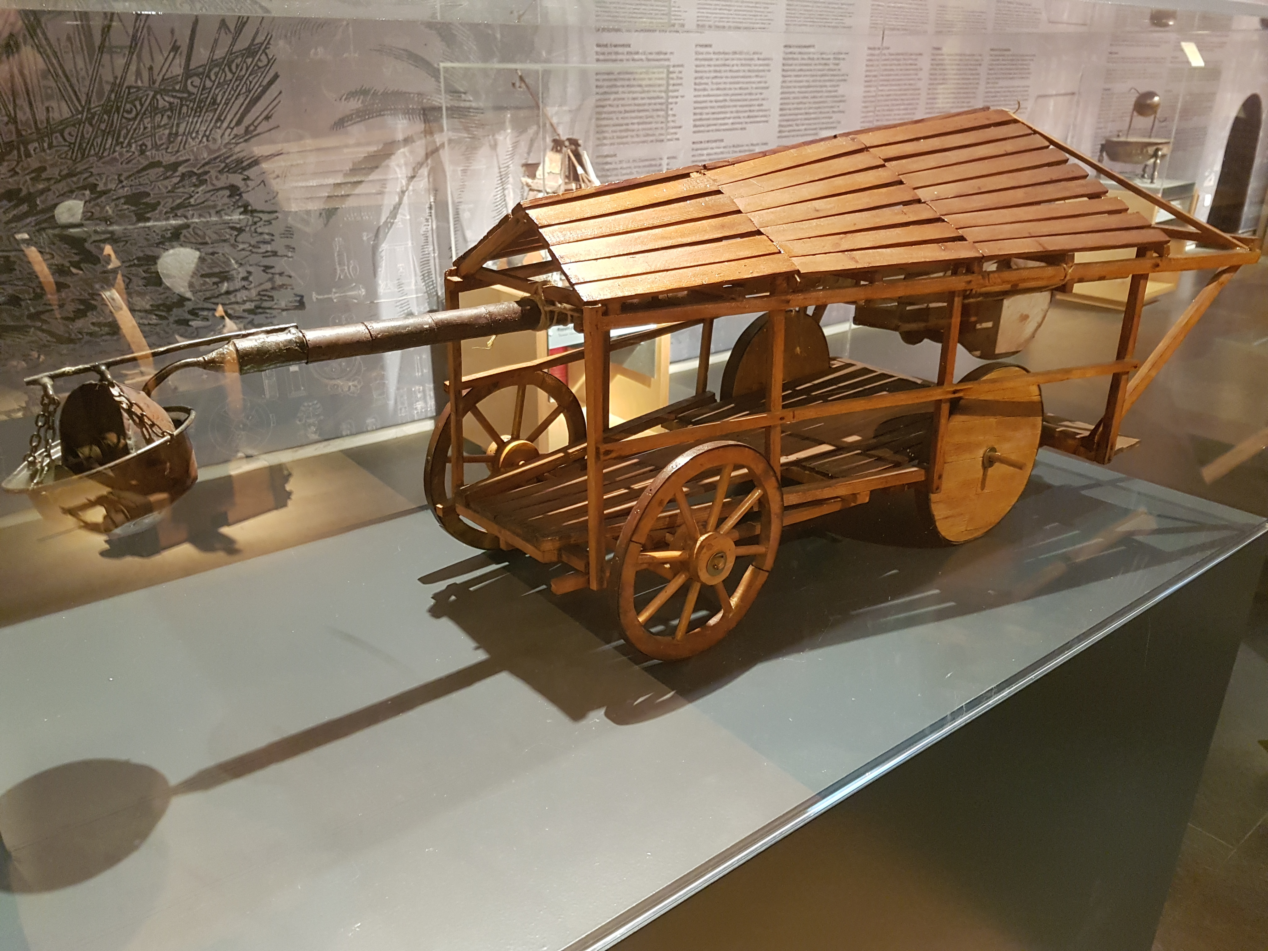 Boeotian flame thrower, 5th century BC, Greece (model). Used for burning wooden gates. Thessaloniki Technology Museum